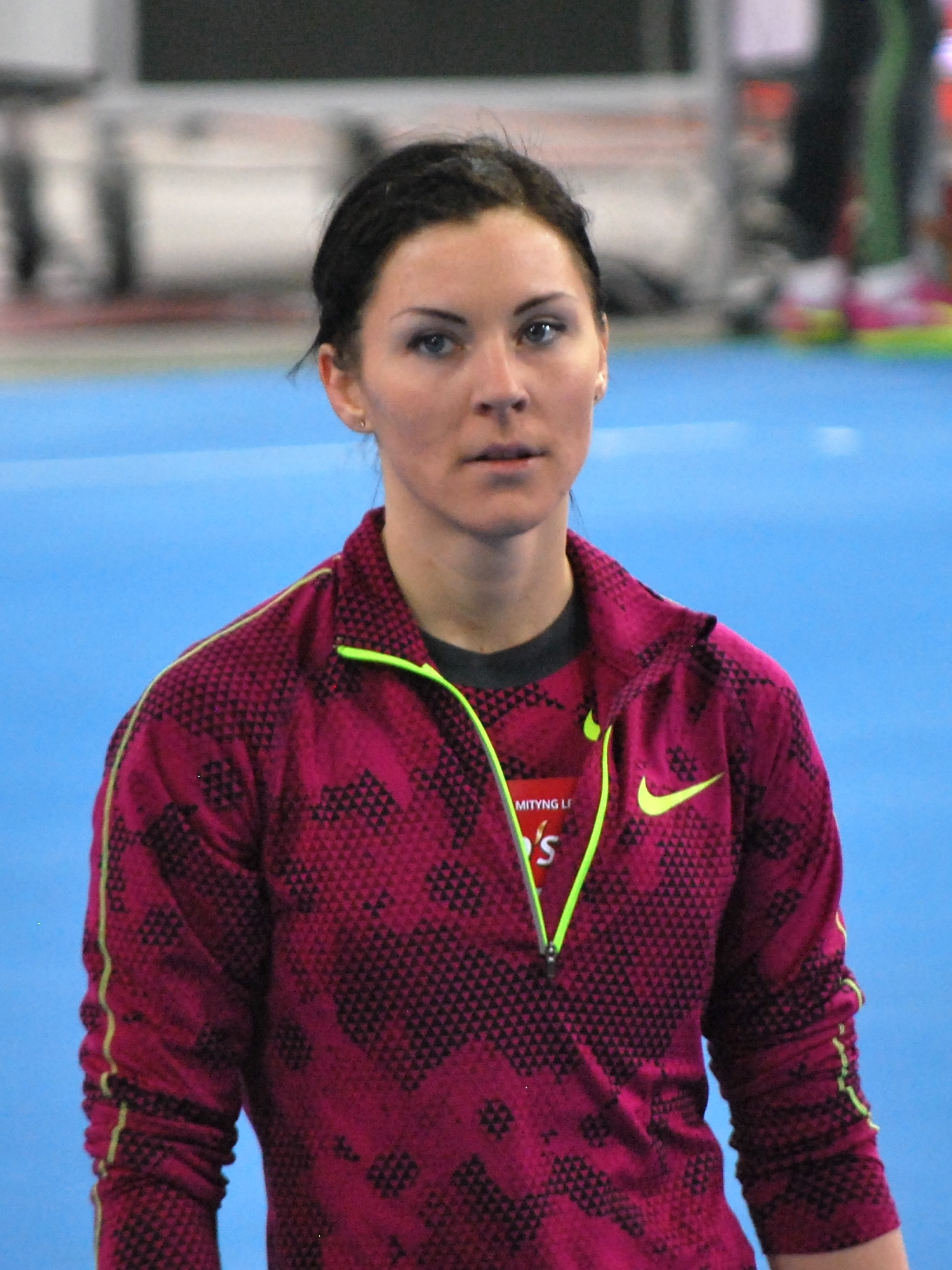 Pedros Cup 2015 Łódź, Barbara Szabó, high jumper from Hungary